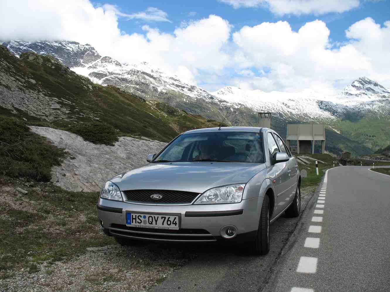 Ford Mondeo TDCI Ghia, build 03/2006